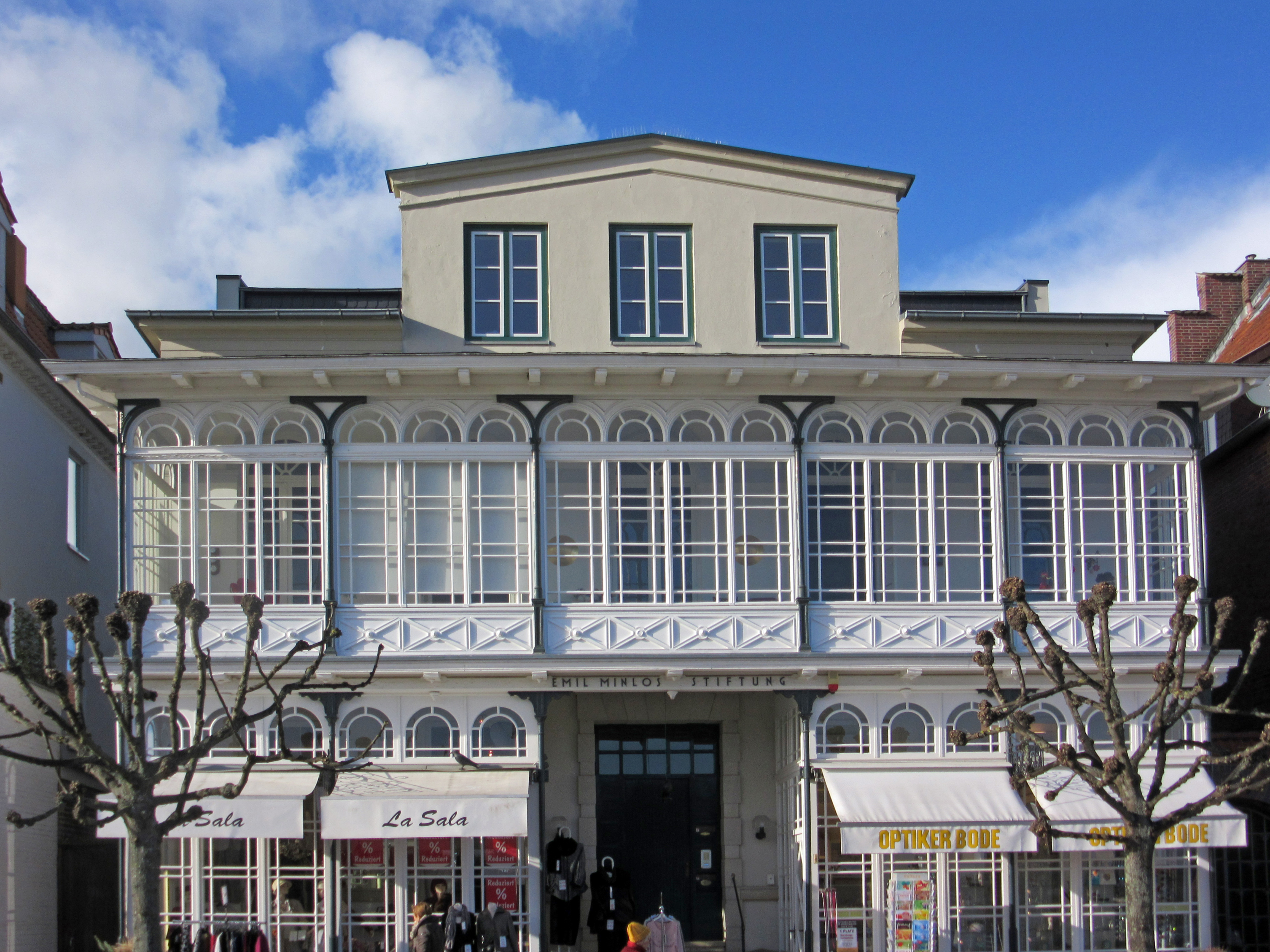 Lübeck-Travemünde, house Vorderreihe 61. Listed building, list of monuments for Lübeck-Travemünde no. 1177 This is a photograph of an architectural monument.It is on the list of cultural monuments of Lübeck-Travemünde